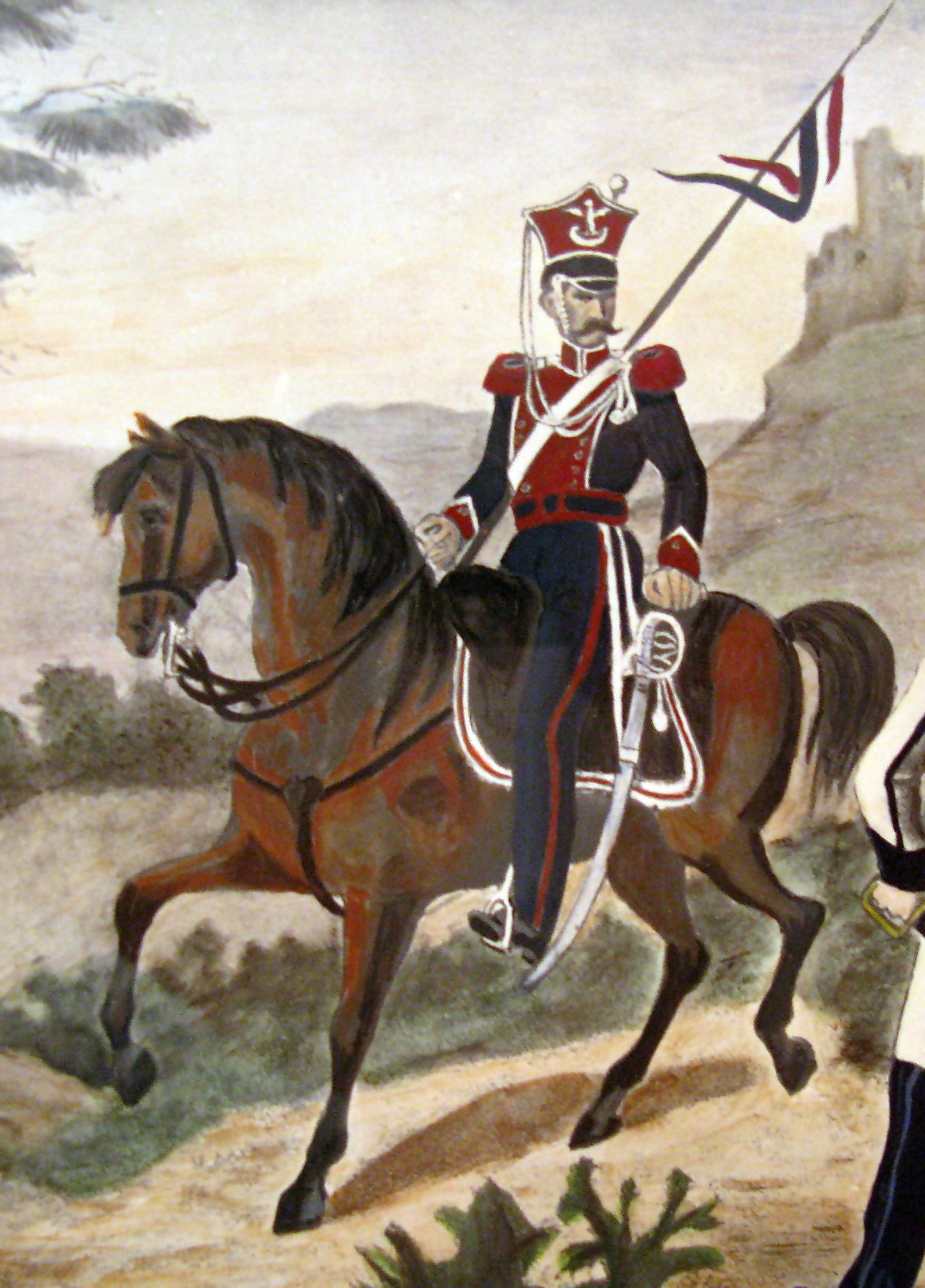 5th Uhlan Regiment of Polish Army of November Uprising